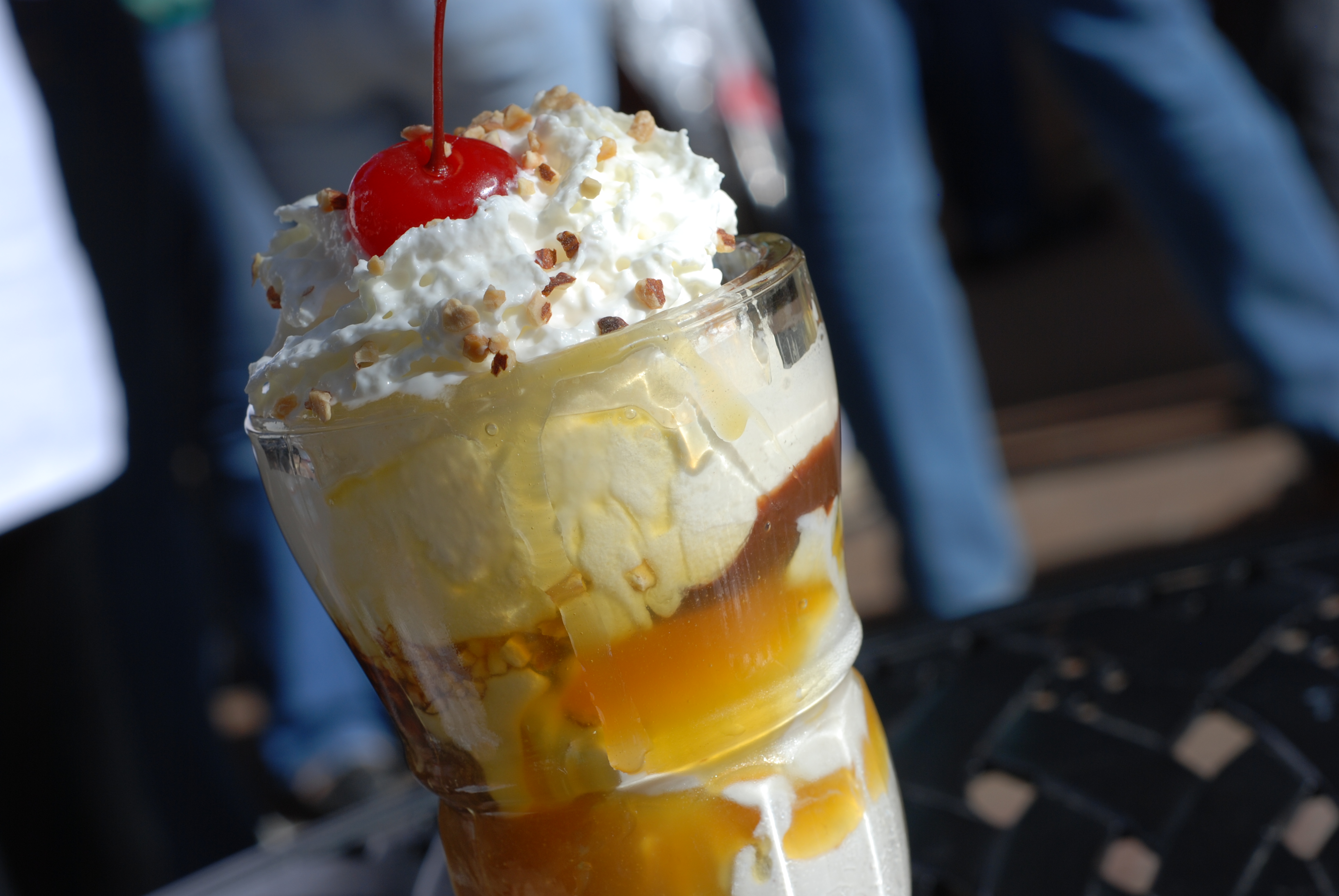 An ice cream sundae topped with butterscotch syrup and hot fudge. Photo taken at the Ghirardelli Company Chocolate shop in Ghirardelli Square, San Francisco, California.